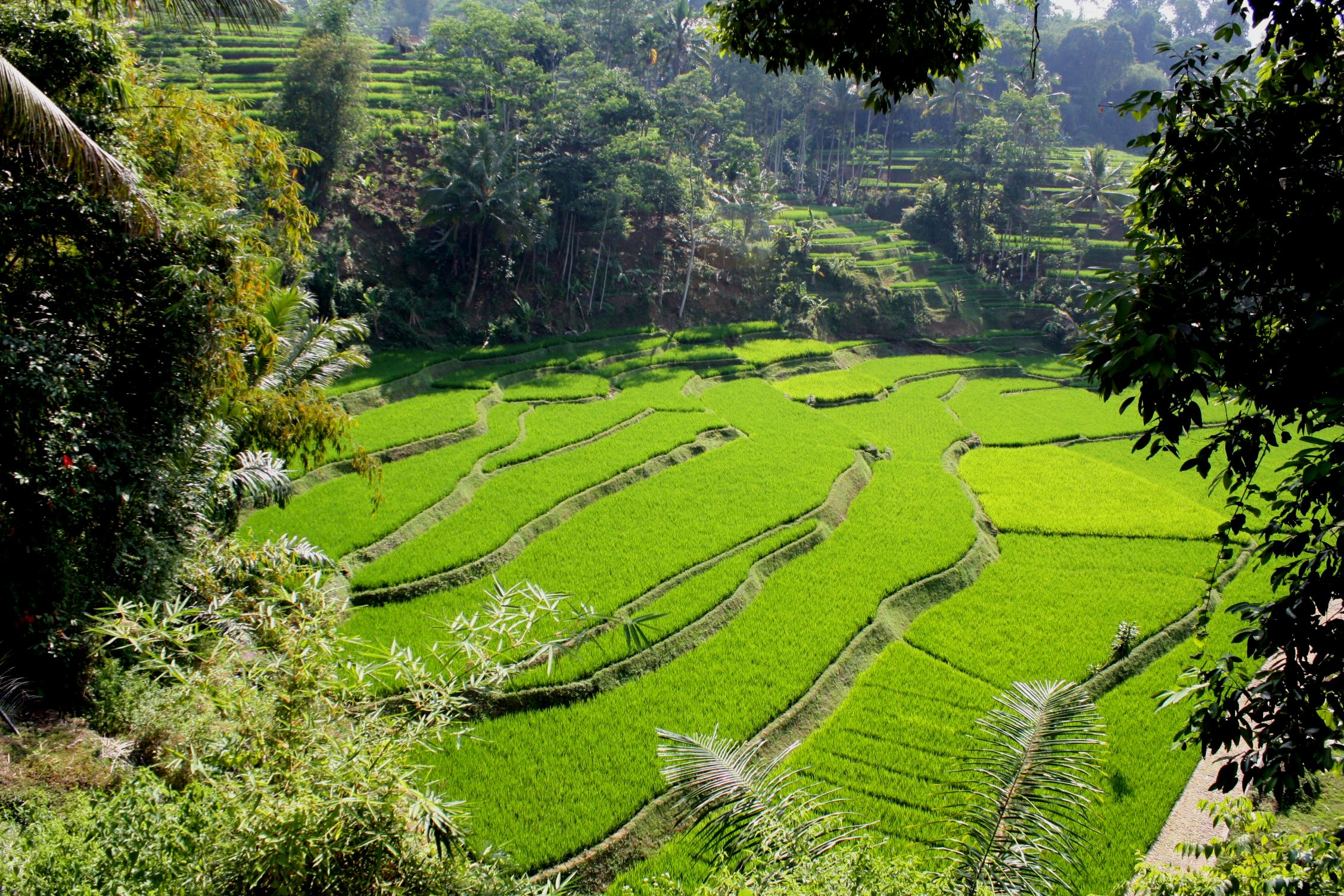 Rice fields terrace built by local people ,native to kampung Naga , Sundanese tribe.